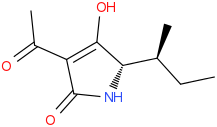 The chemical structure of the mycotoxin tenuazonic acid as reported by Cayman Chemical, a popular supplier of small molecules for biological research - Imagine was created with and retouched using Microsoft Paint